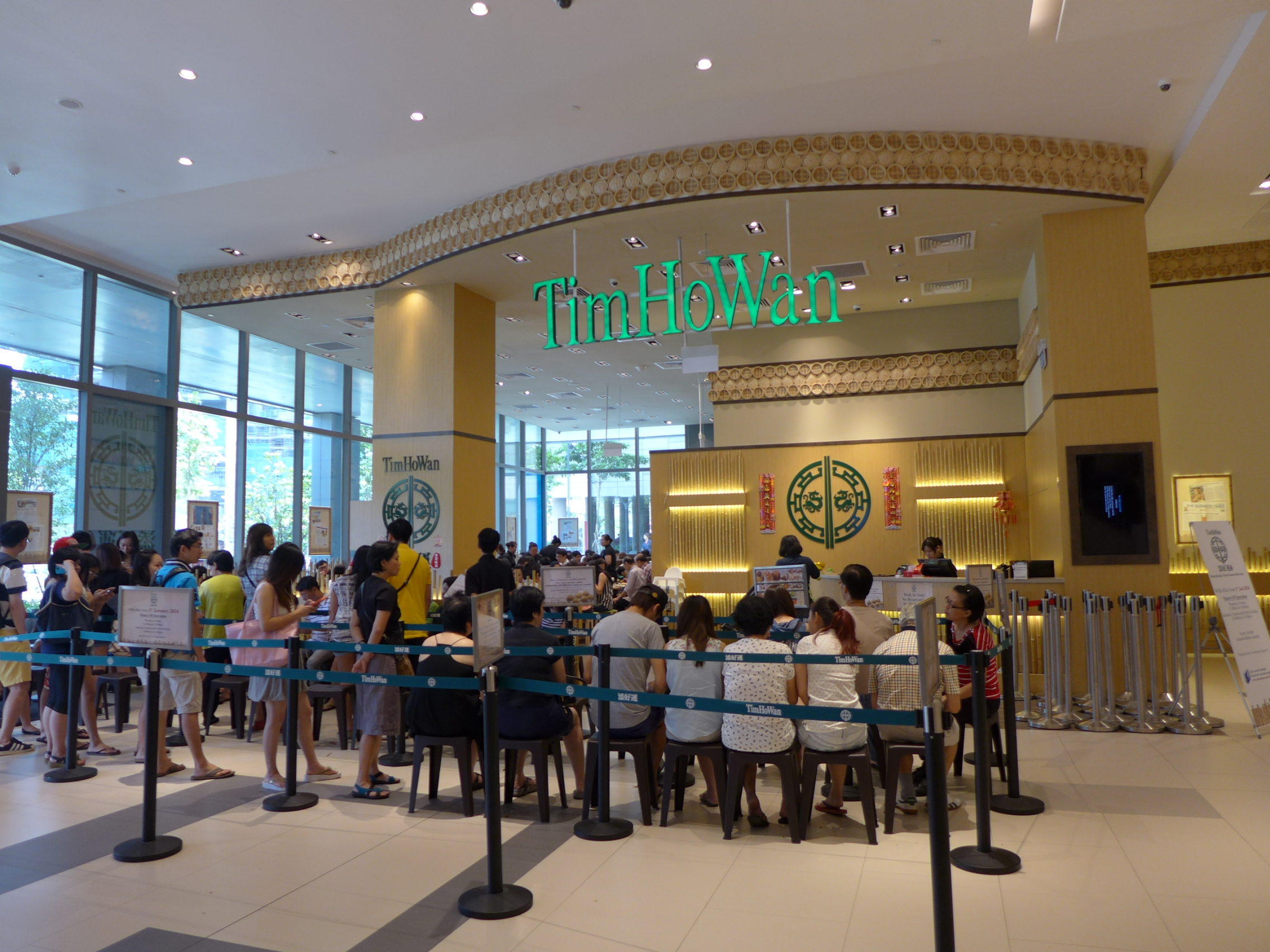 People queueing for tables at the Tim Ho Wan outlet in Westgate shopping mall in Jurong East, Singapore.